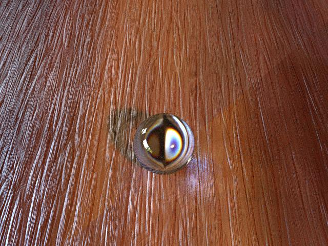 Photorealistic Realistic render in Kerkythea Using Kitchen probe